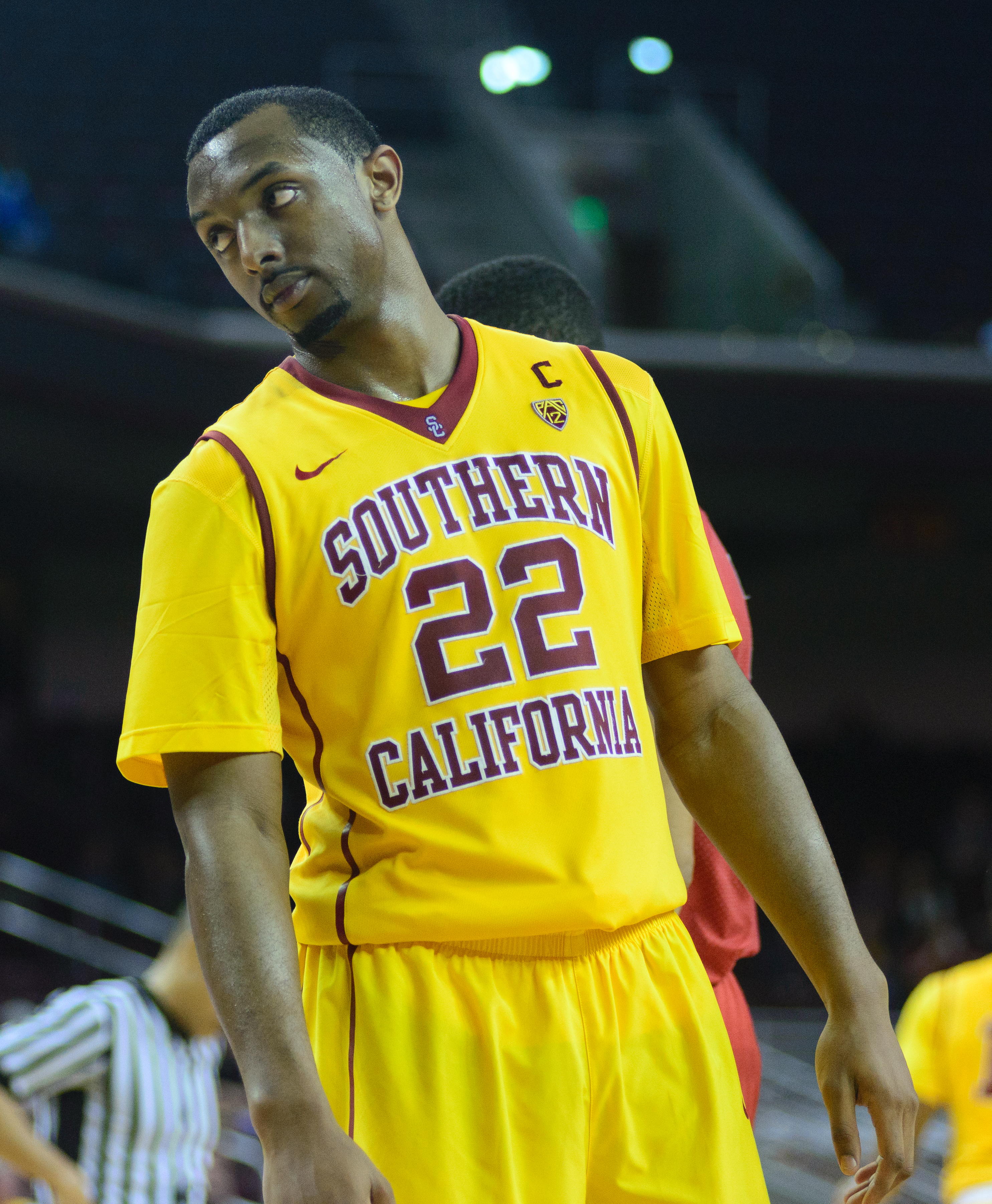 Byron Wesley against Utah.